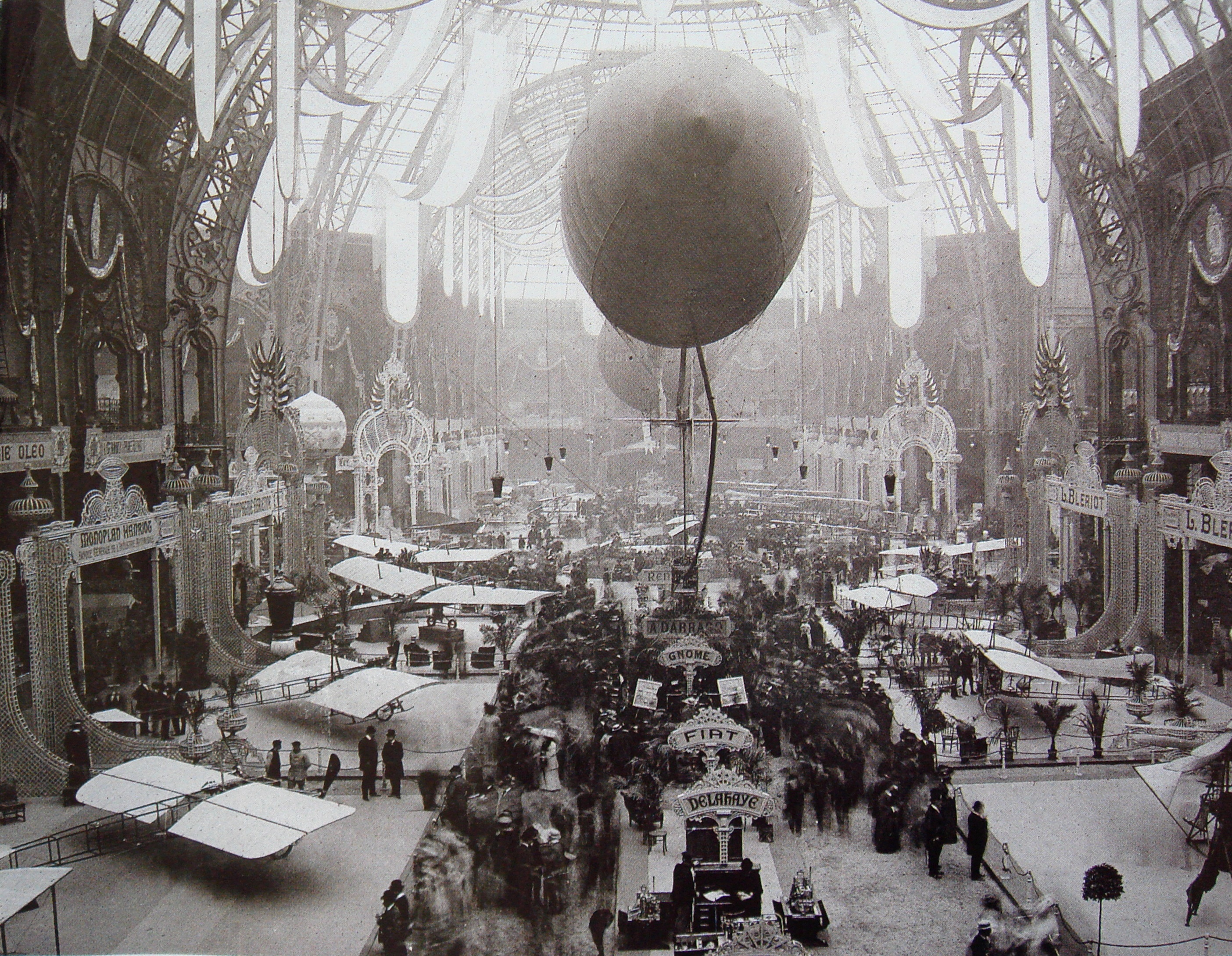 Salon_de_locomotion_aerienne_1909_Grand_Palais_Paris. Exhibits include: Monoplan Hanriot; Louis Blériot; Delahaye; Fiat; Gnome; Darracq